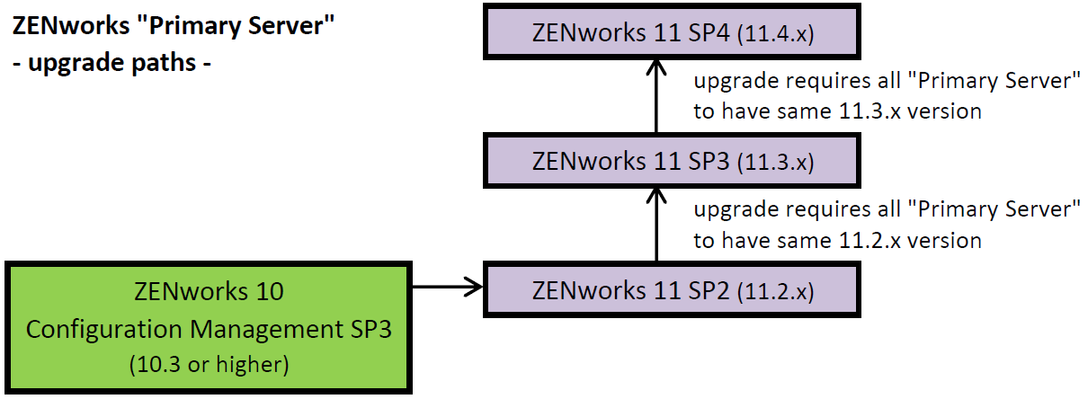 Novell ZENworks "Primary Server": Upgrade paths version 10.3 to 11.4.